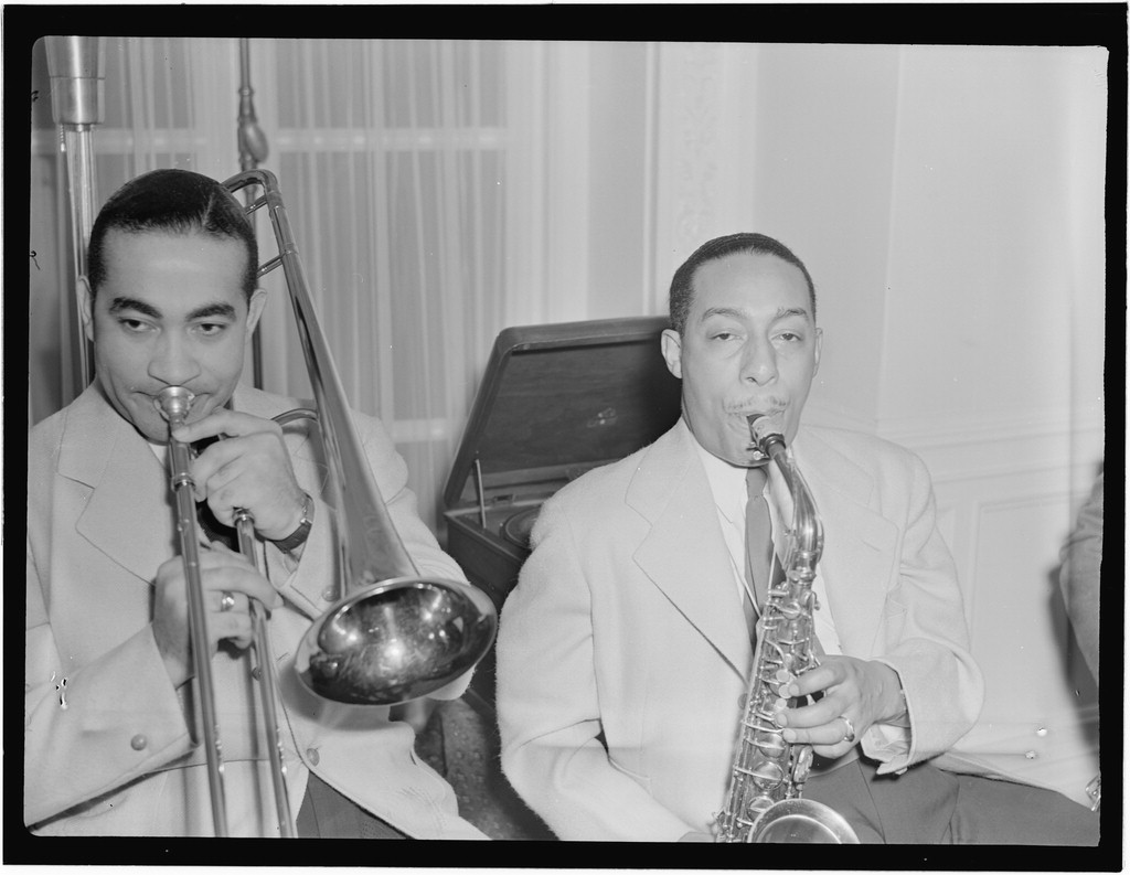 Gottlieb, William P., 1917-, photographer. [Portrait of Johnny Hodges and Lawrence Brown, Turkish Embassy, Washington, D.C., 193-] 1 negative : b&w ; 3 1/4 x 4 1/4 in. Notes: Gottlieb Collection Assignment No. 033 Reference print available in Music Division, Library of Congress. Purchase William P. Gottlieb Forms part of: William P. Gottlieb Collection (Library of Congress). In: The Record Changer, v. 5, no. 12 (Feb. 47, 1947), p. 7. Subjects: Hodges, Johnny Brown, Lawrence, 1907-1988 Jazz musicians--1930-1940. Trombonists--1930-1940. Saxophonists--1930-1940. Turkish Embassy Format: Portrait photographs--1930-1940. Group portraits--1930-1940. Film negatives--1930-1940. Rights Info: Mr. Gottlieb has dedicated these works to the public domain, but rights of privacy and publicity may apply. Repository: (negative) Library of Congress, Prints & Photographs Division, Washington D.C. 20540 USA, (reference print) Library of Congress, Music Division, Washington D.C. 20540 USA, Part Of: William P. Gottlieb Collection (DLC) 99-401005 General information about the Gottlieb Collection is available at Persistent URL: Call Number: LC-GLB23- 0420 This work is from the William P. Gottlieb collection at the Library of Congress. Rights and restrictions.In accordance with the wishes of William Gottlieb, the photographs in this collection entered into the public domain on February 16, 2010.